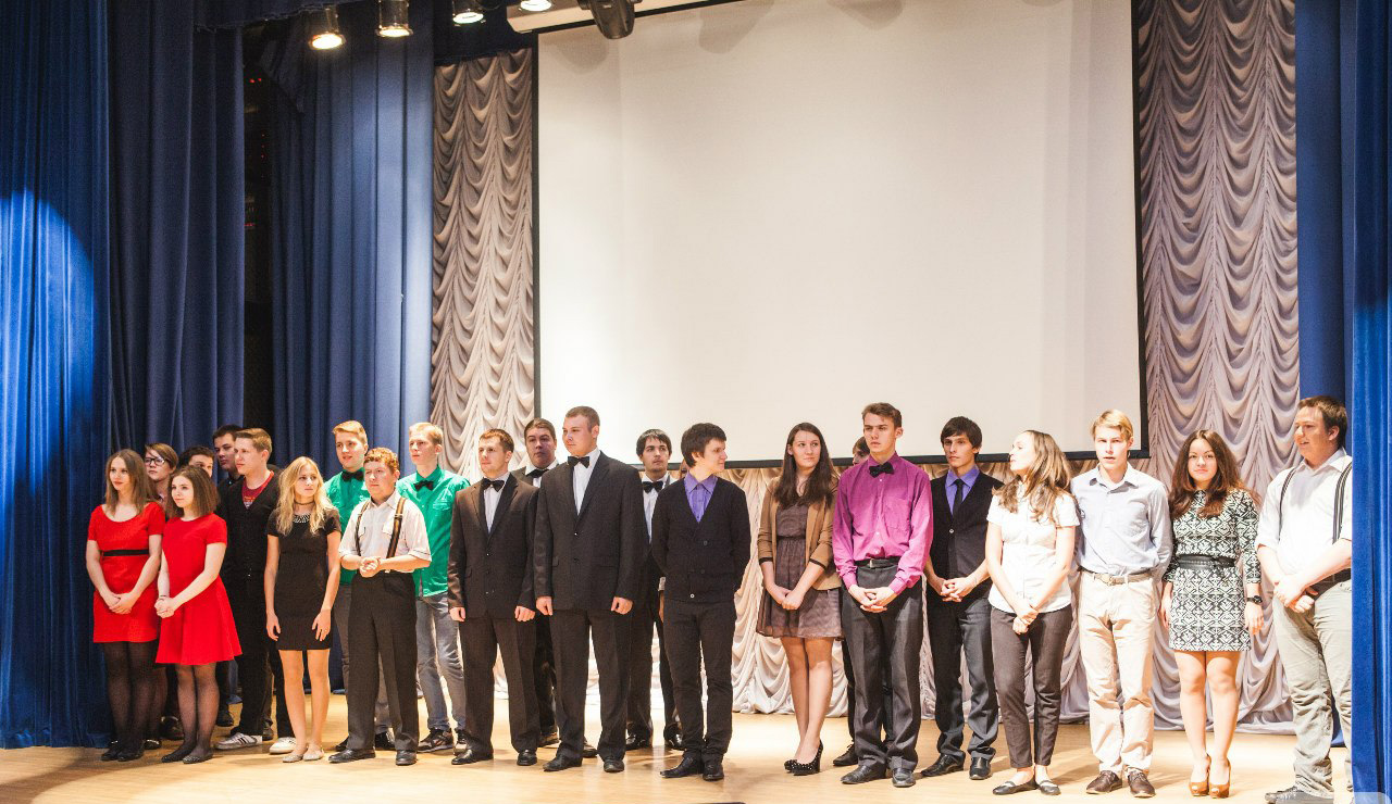 The semi-final concert of KVN in Petrozavodsk state University